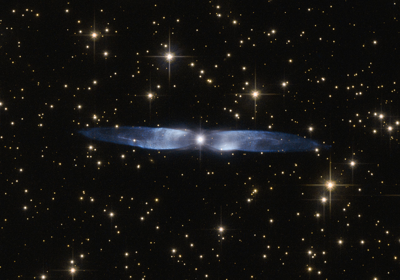 In this cosmic snapshot, the spectacularly symmetrical wings of Hen 2-437 show up in a magnificent icy blue hue. Hen 2-437 is a planetary nebula, one of around 3000 such objects known to reside within the Milky Way. Located within the faint northern constellation of Vulpecula (The Fox), Hen 2-437 was first identified in 1946 by Rudolph Minkowski, who later also discovered the famous and equally beautiful M2-9 (otherwise known as the Twin Jet Nebula). Hen 2-437 was added to a catalogue of planetary nebula over two decades later by astronomer and NASA astronaut Karl Gordon Henize. Planetary nebulae such as Hen 2-437 form when an aging low-mass star — such as the Sun — reaches the final stages of life. The star swells to become a red giant, before casting off its gaseous outer layers into space. The star itself then slowly shrinks to form a white dwarf, while the expelled gas is slowly compressed and pushed outwards by stellar winds. As shown by its remarkably beautiful appearance, Hen 2-437 is a bipolar nebula — the material ejected by the dying star has streamed out into space to create the two icy blue lobes pictured here.